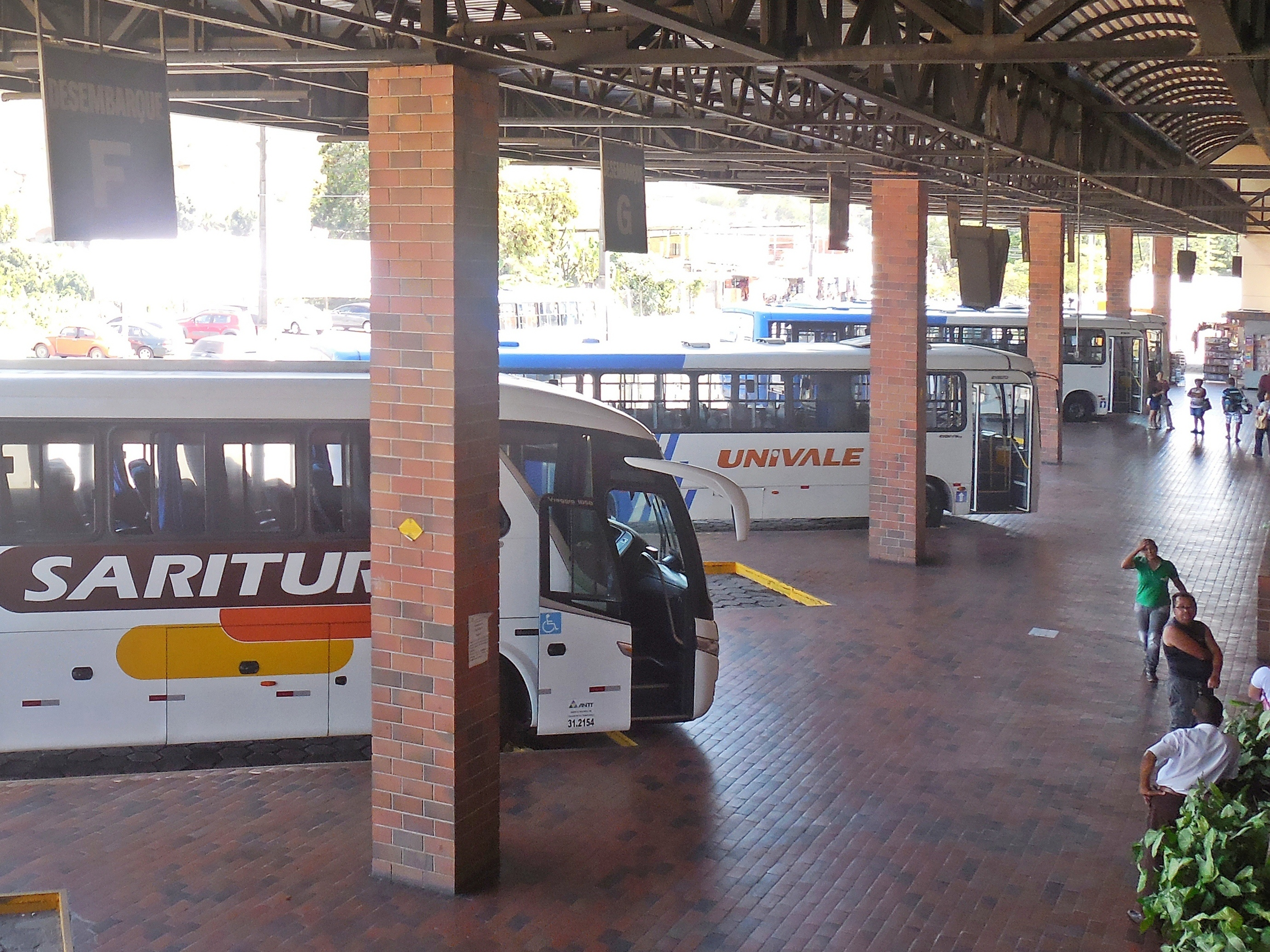 Embarking and disembarking area of the Coronel Fabriciano bus station, in Coronel Fabriciano, Minas Gerais, Brazil.